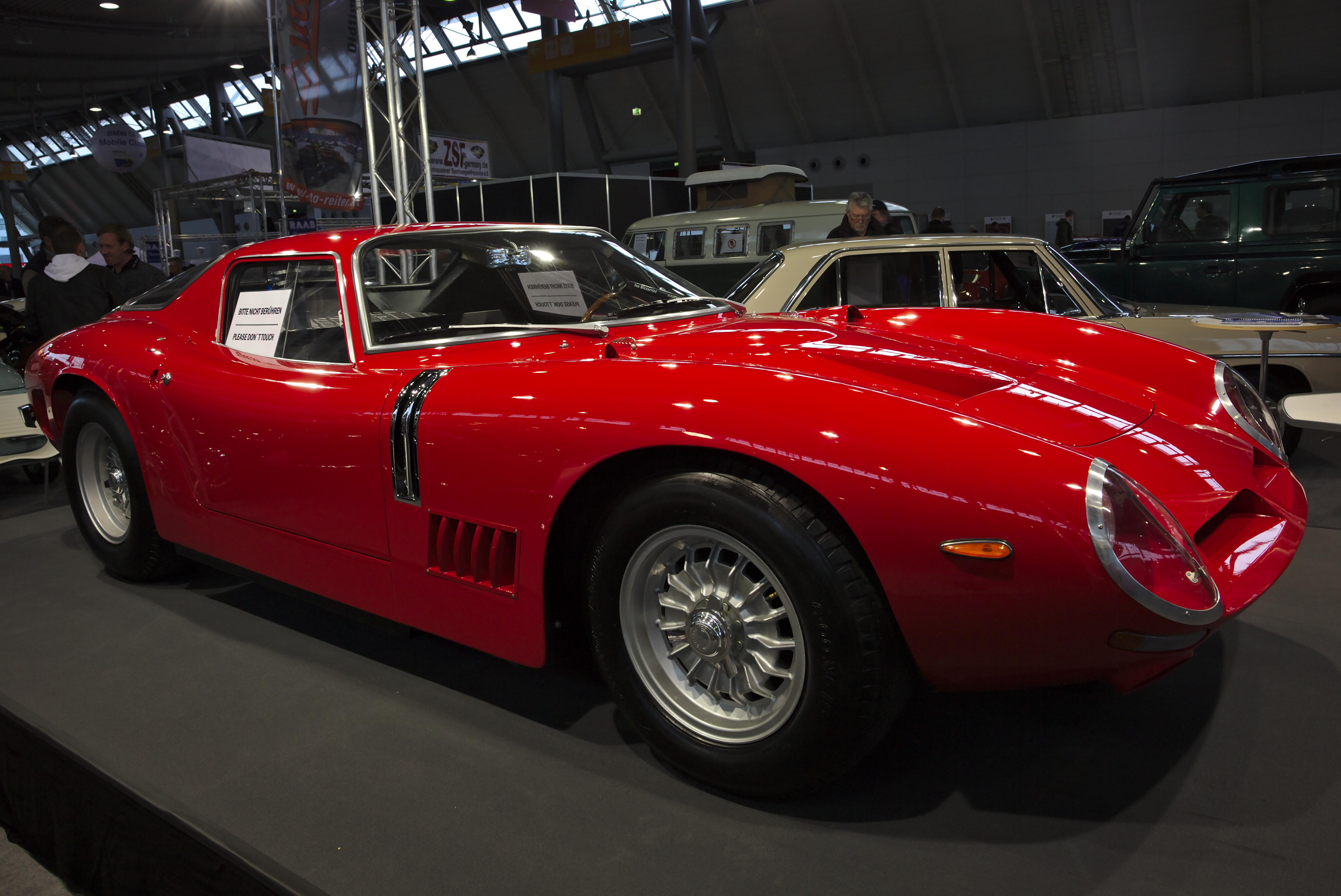 Iso Bizzarini at Retro Classics 2018